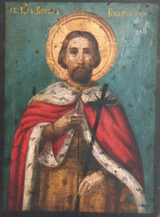 Boris I Bulgarian XIX Century Icon